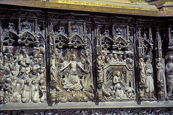 Fragment of the gothic altarpiece of St. Thecla, Cathedral of Tarragona, by Pere Joan, 15th cent.